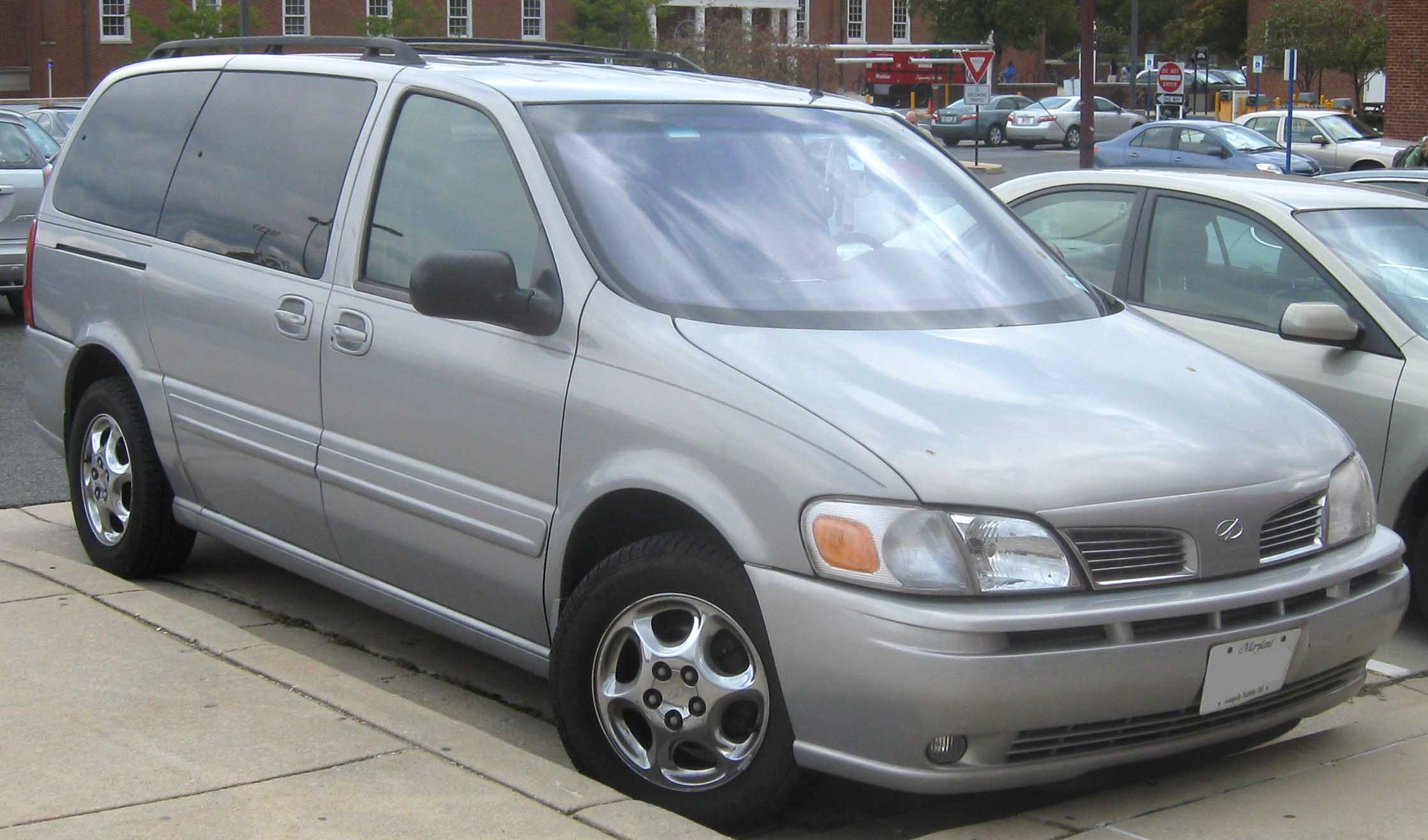 2001-2004 Oldsmobile Silhouette photographed in College Park, Maryland, USA.